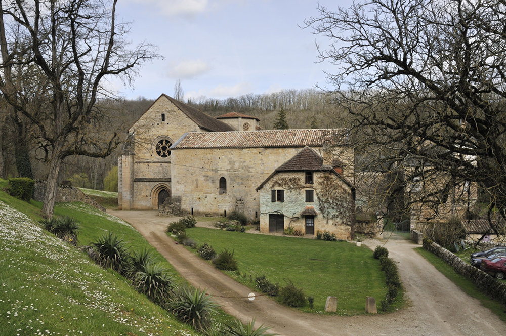 The Abbey of Beaulieu-en-Rouergue, Ginals, France